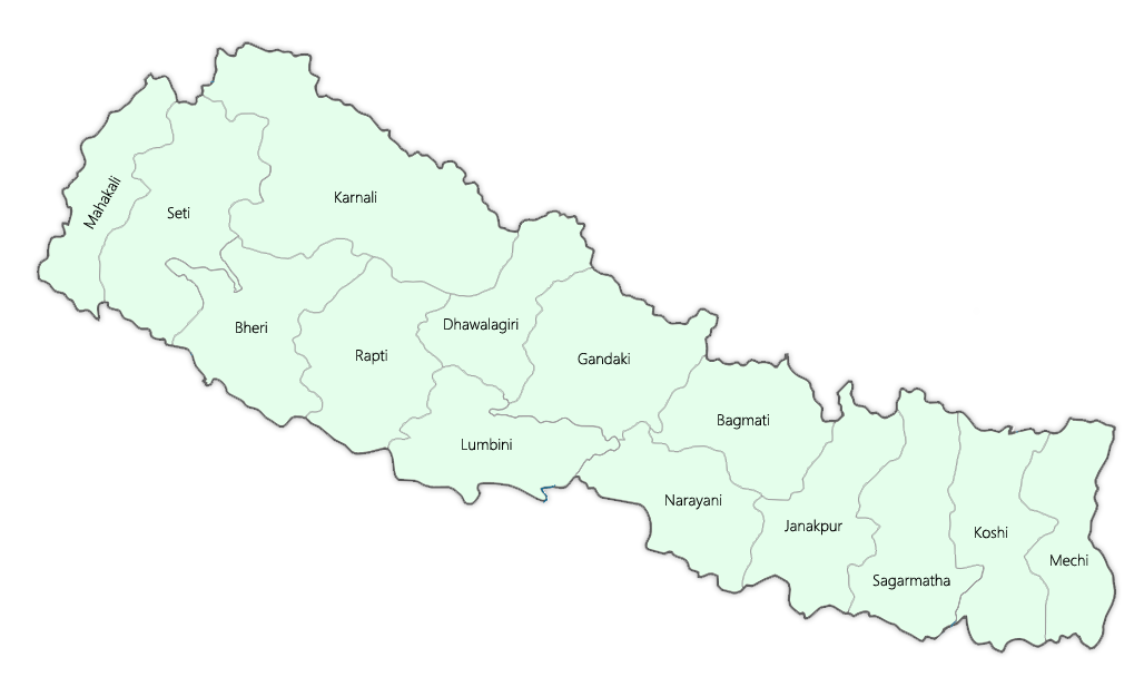 Nepa's Map showing 14 zones of Nepal